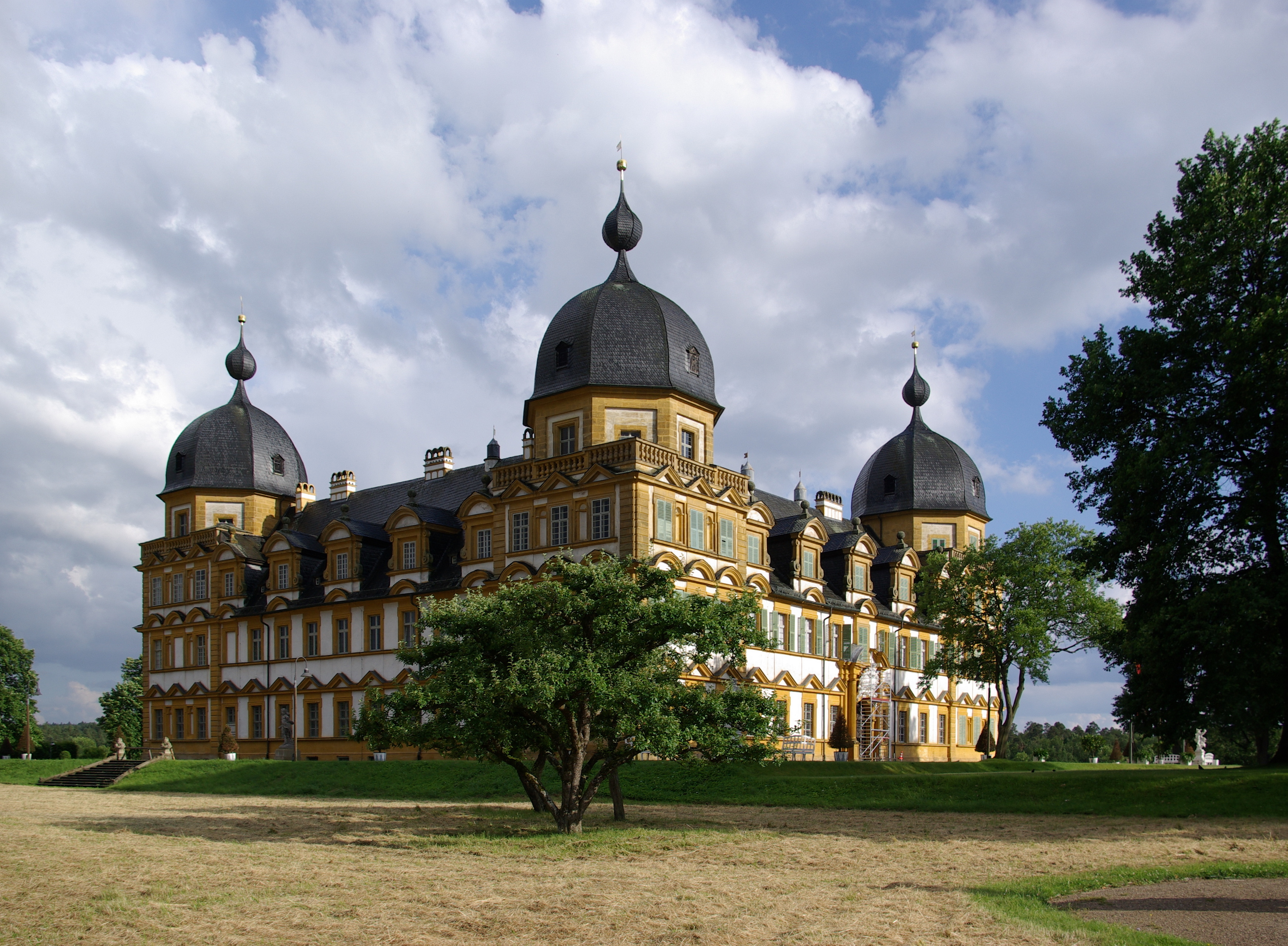 Germany, Seehof palace near Bamberg